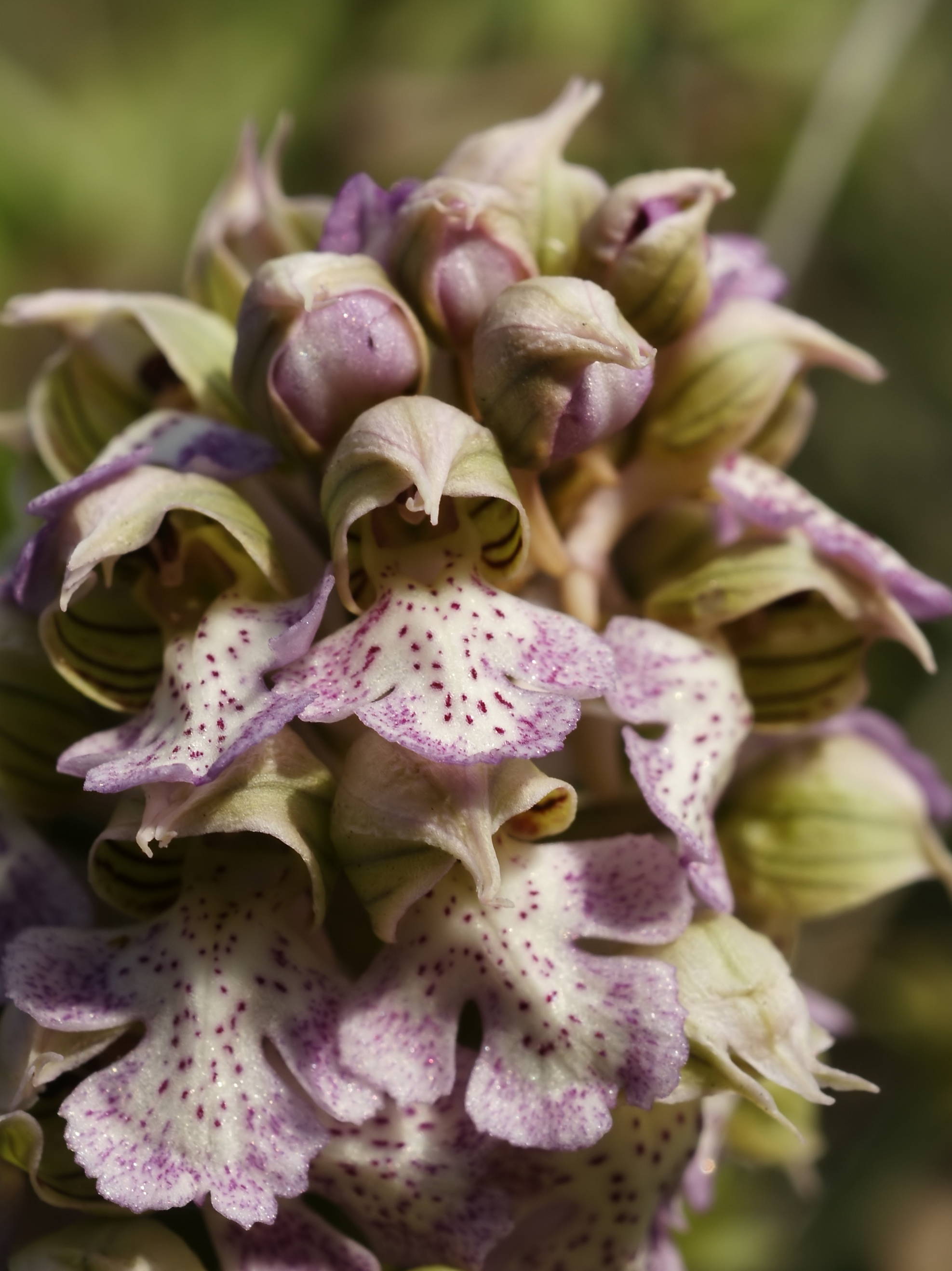 Milky Orchid. Approximate co-ordinates: plant located within 5 km from Ovodda, Sardinia, Italy